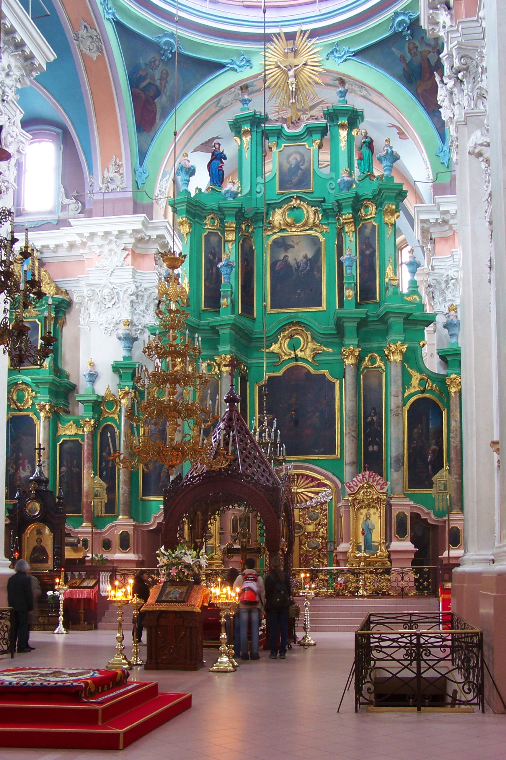 Holy Saturdy in the Orthodox Church of the Holy Spirit in Vilnius.